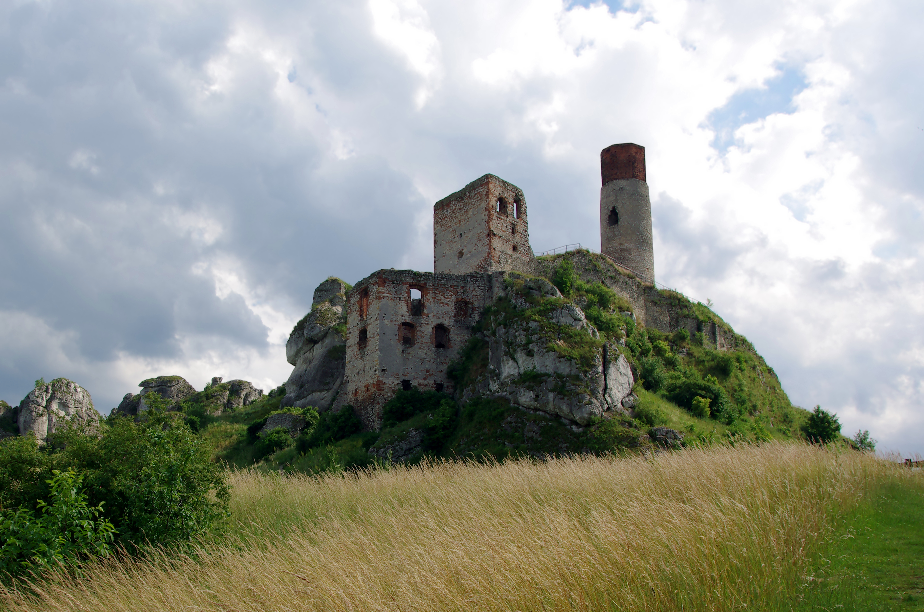 Olsztyn Jura Castle